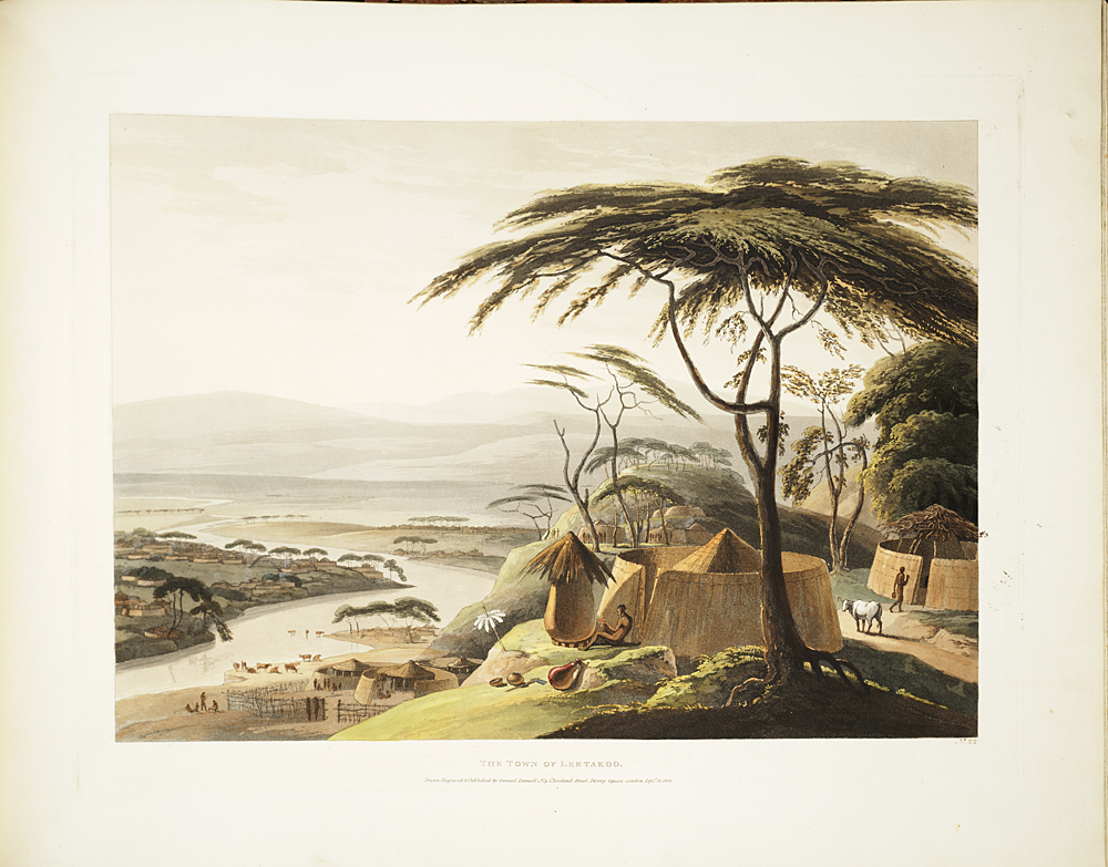 "The town of Leetakoo" = Litakun - Samuel Daniell was appointed artist for a British expedition into the Cape interior in 1801. He sketched animals from life in their natural habitats, and was praised for his accuracy and attention to detail. Upon his return, Daniell used his field sketches to create and publish these aquatints